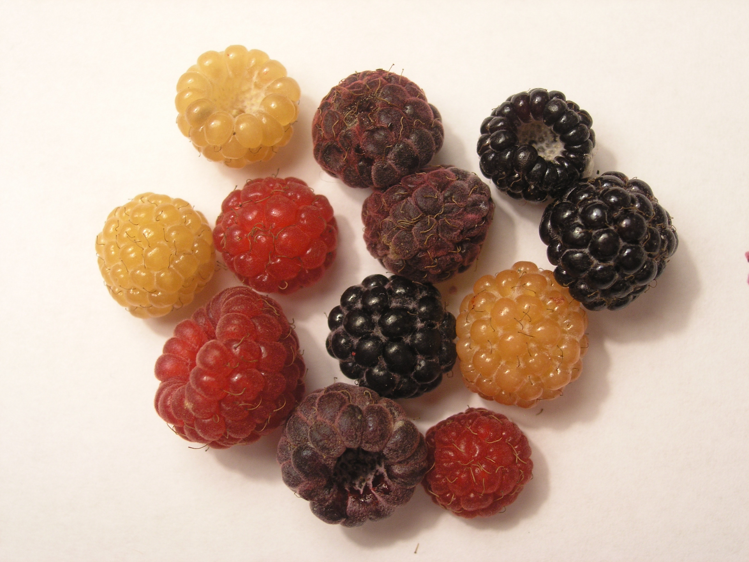 Four types of ripe wild raspberries found in northeastern unites states (upstate NY). I picked these berries and took the picture on July 19, 2006. Raspberry types in the picture are black, red, purple, and what I believe to be an albino raspberry. The white one tastes like a black raspberry. The black raspberries are my favorite but all four types taste good. Black raspberries are delicious on Häagen-Dazs vanilla bean ice cream.